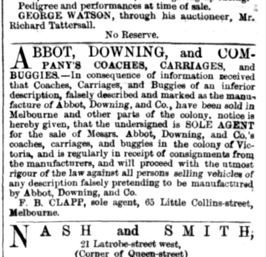 Advertisement by F B Clapp of his sole agency in Victoria for vehicles made by Abbott Downing & Co